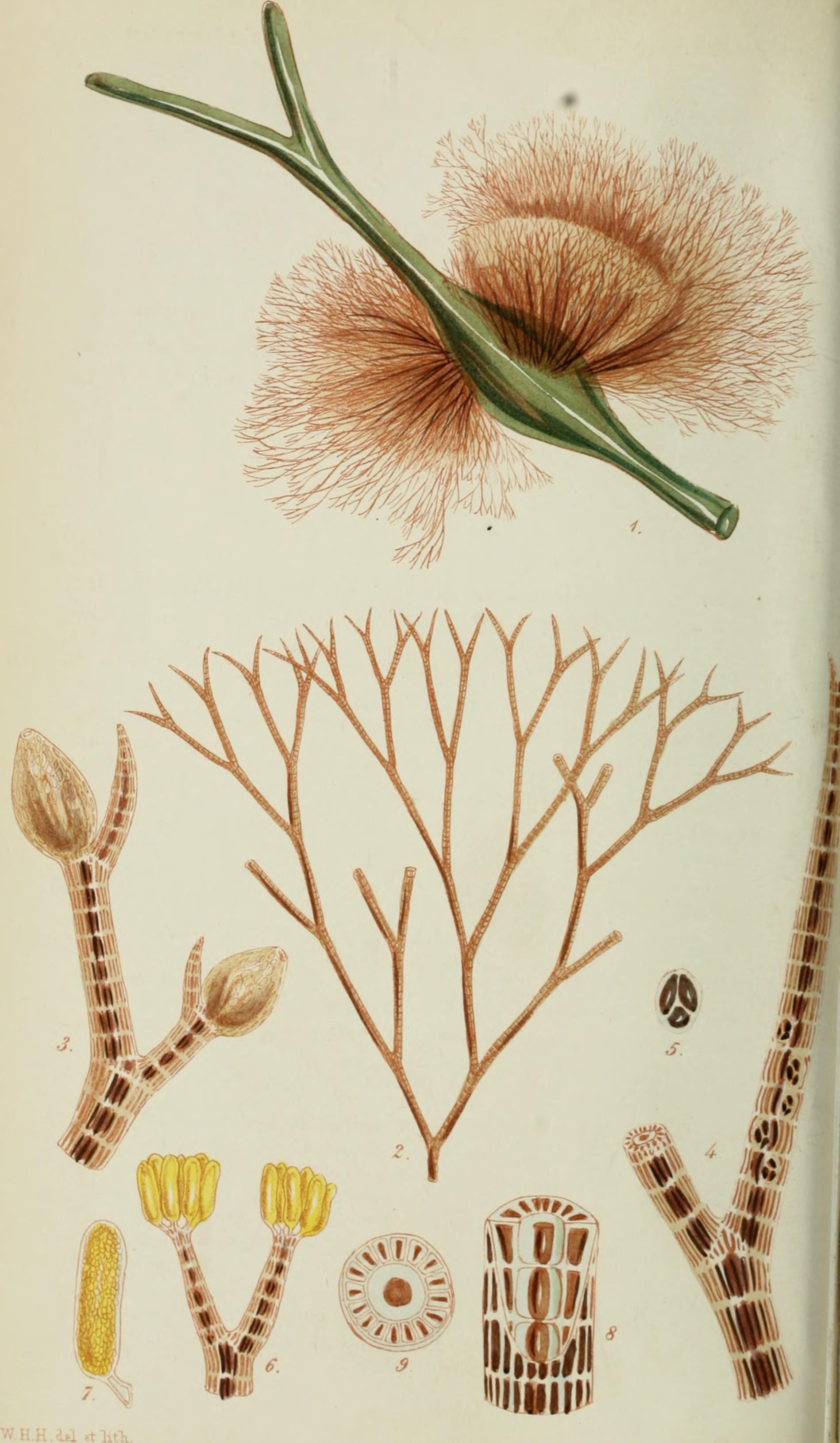 Polysiphonia fastigiata = Vertebrata lanosa 1 tufts growing on Ascophyllum nodosum 2 portion of a frond 3 ceramidia = cystocarps 4 branchlet with imbedded tetraspores 5 tetraspore 6 apices with antheridia 7 antheridium 8 portion of a frond, partly cut longitudinally 9 transverse section of a frond Title: Phycologia Britannica, or, A history of British sea-weeds : containing coloured figures, generic and specific characters, synonymes, and descriptions of all the species of algae inhabiting the shores of the British Islands Year: 1846 (1840s) Authors: Harvey, William H. (William Henry), 1811-1866 Harvey, William H. (William Henry), 1811-1866. History of British sea-weeds Subjects: Marine algae Publisher: London : Reeve Brothers Text Appearing Before Image: Fiatc ce^a Text Appearing After Image: « mi f Ilk Ser. Rhodosperme/k. Fam. RhodomelecB. Plate CCXCIX. POLYSIPHONIA FASTIGIATA, Grev. Gen. Chae. Frond filamentous, partially or generally articulate; articula-tions longitudinally striate, composed of numerous, radiating cells ortubes, disposed round a central cavity. Fructification twofold, ondifferent individuals : 1, ovate cajisules (ceramidia) furnished with aterminal pore, and containing a tuft of pear-shaped spores; 2, tetra-spores, imbedded in swollen branclilets. Polysiphonia (Grev.),—from TToXvy, 7/ia/iy, and o-it^coi, a tube. PoLYSiPHONiA fastigiata; filaments rigid, setaceous, of equal diameterthroughout, forming globular, fastigiate tufts, many times dichoto-mous; the axils patent; articulations shorter than their diameter,multistriate, with a dark central spot; siphons from sixteen toeighteen. PoLYSiPHOXiA fastigiata, Grev. Fl. Edin. p. 308. Harv. in Hook. Br. Fl.vol. ii. p. .333. Harv. in Maclc. F. Hib. part 3. p. 209. Harv. Man. ed. 2.p. 92. TFyatt, Ahj. Ban